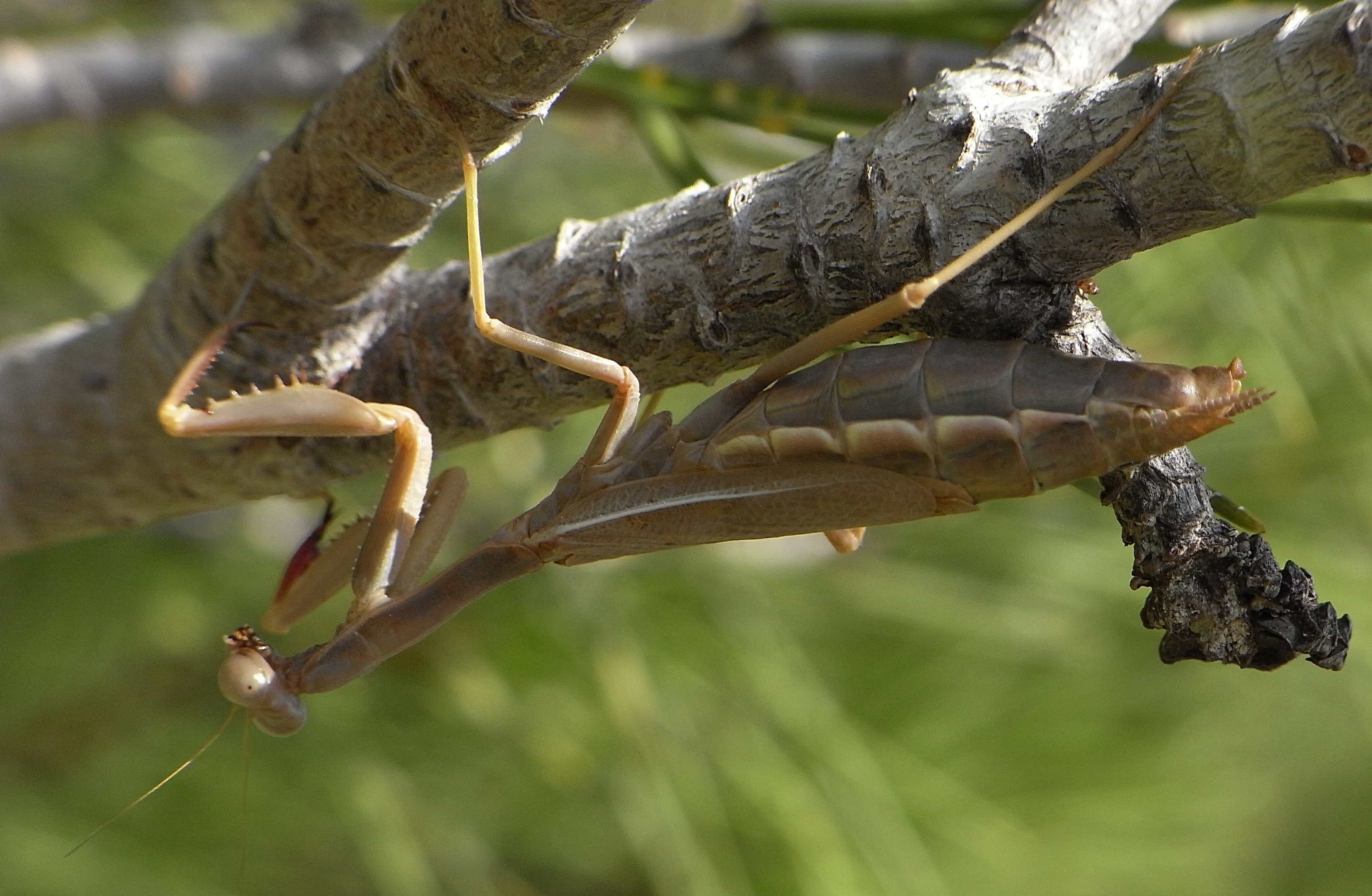 Female Iris oratoria from Gruissan, Southern France, on Pinus spRicoh R8